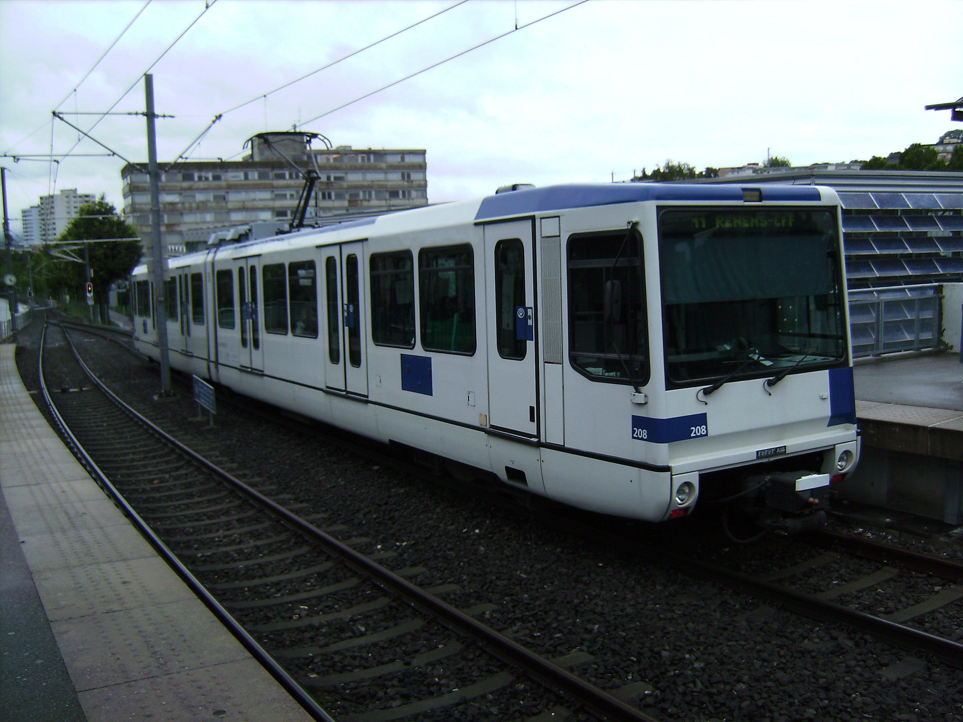 Train in the Montelly station of Lausanne metro.